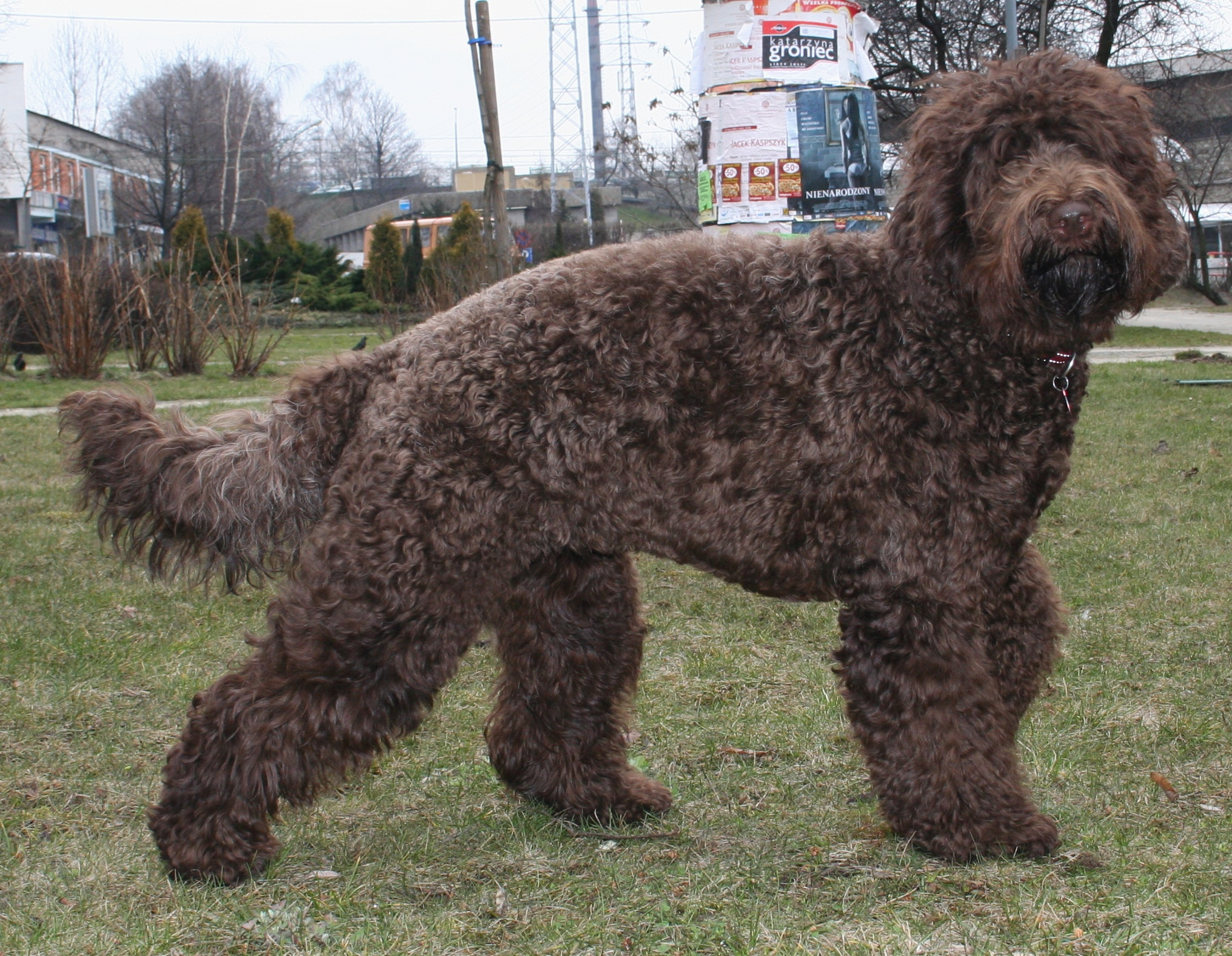 Barbet during the international dog show in Katowice - female from husbandry "z Kędziorkowa", the owner and breeder - Anna Stępińska, Poland.